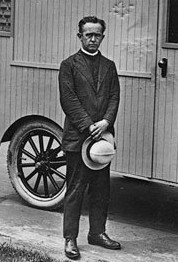 Depicted person: Branford Edward Clarke – American evangelical preacher